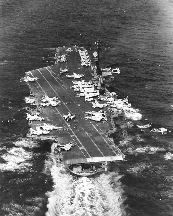 The U.S. Navy aircraft carrier USS Midway (CVA-41) in the Pacific Ocean, 30 November 1974. Midway, with assigned Attack Carrier Air Wing 5 (CVW-5), was deployed to the Western Pacific from 18 October to 20 December 1974.